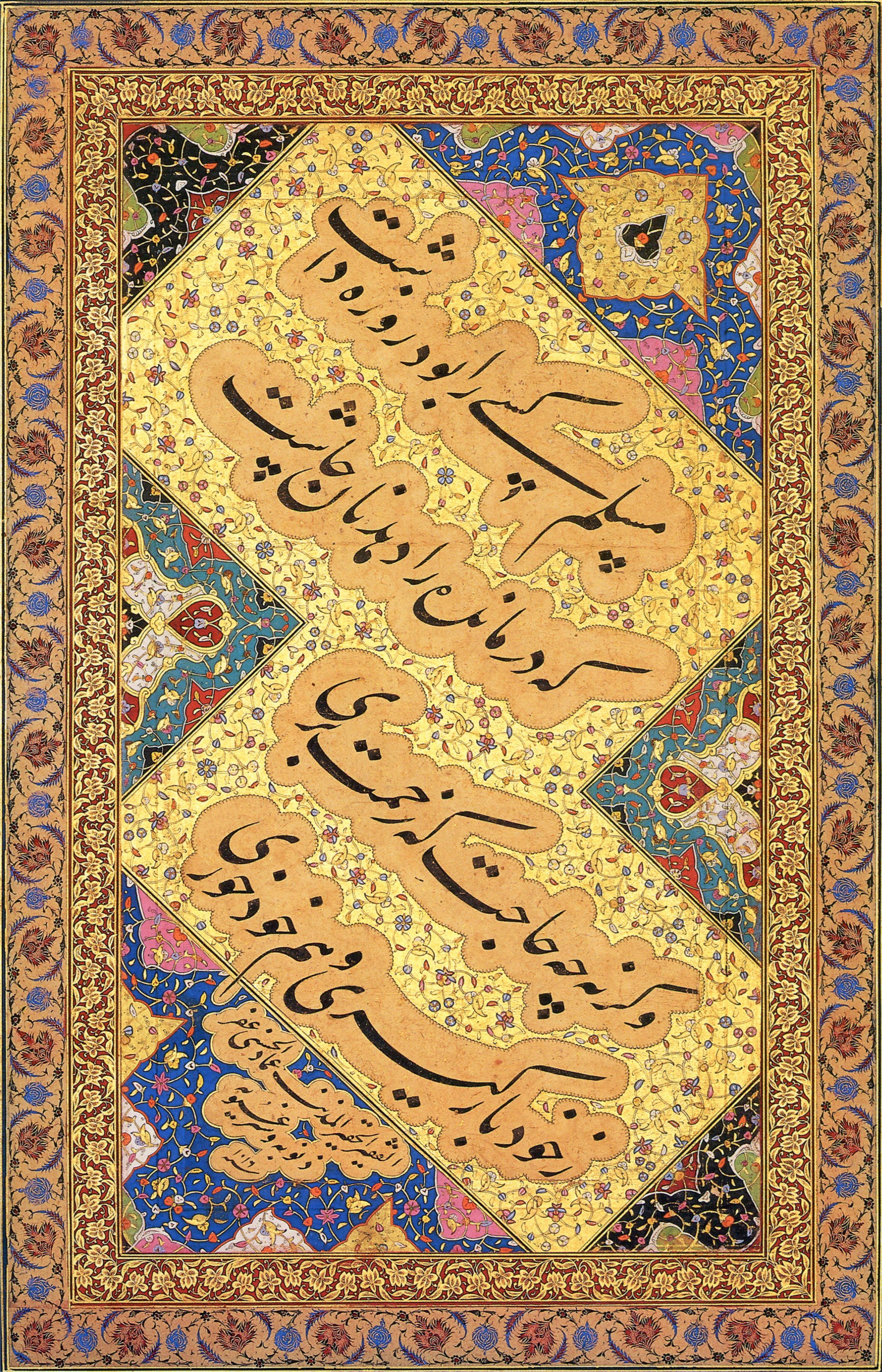 Chalipa panel by Mir Emad.